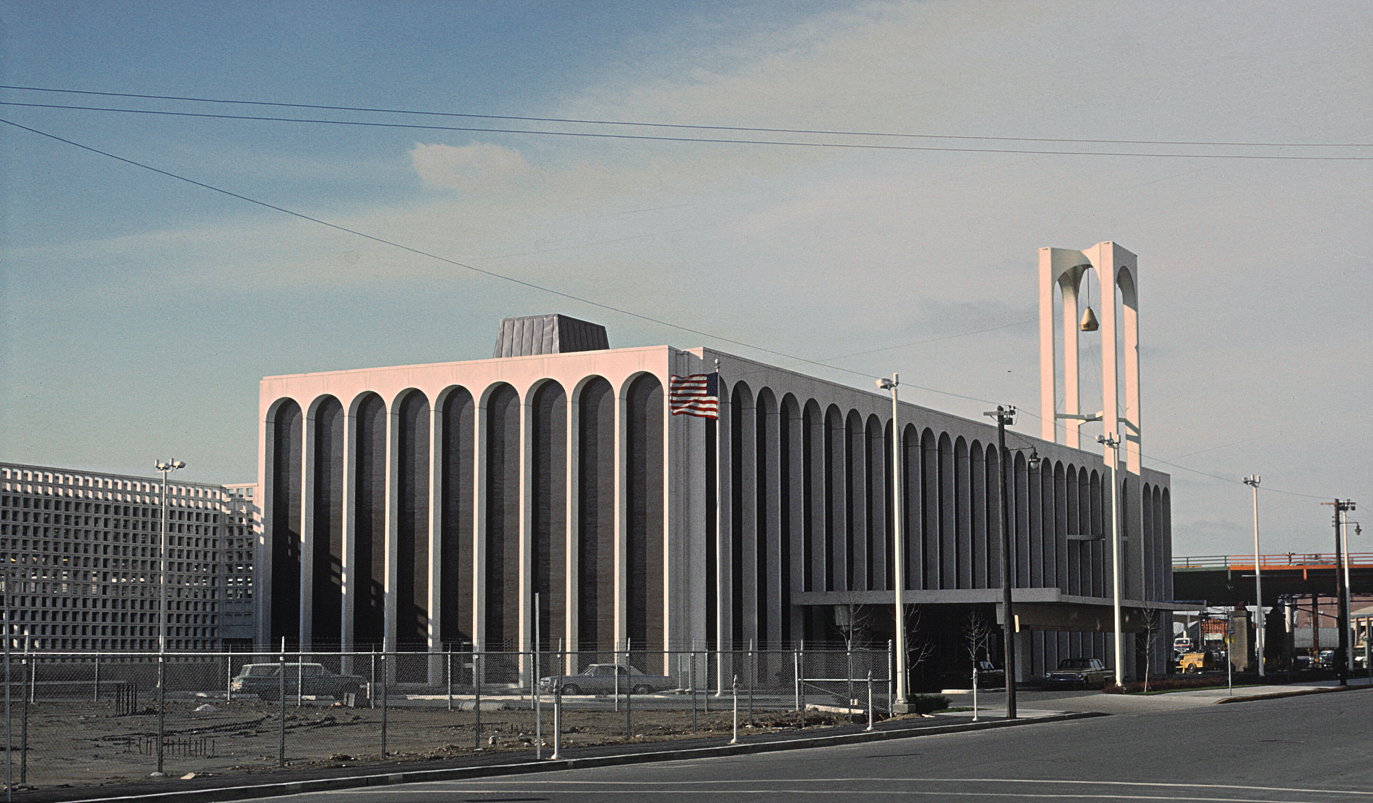 MILW Station at Milwaukee, Wisc. in November 1965. When Roger took this photo, the depot was just months old. It subsequently was extensively remodeled and looks little like this. There is a current photo in this Wikipedia article